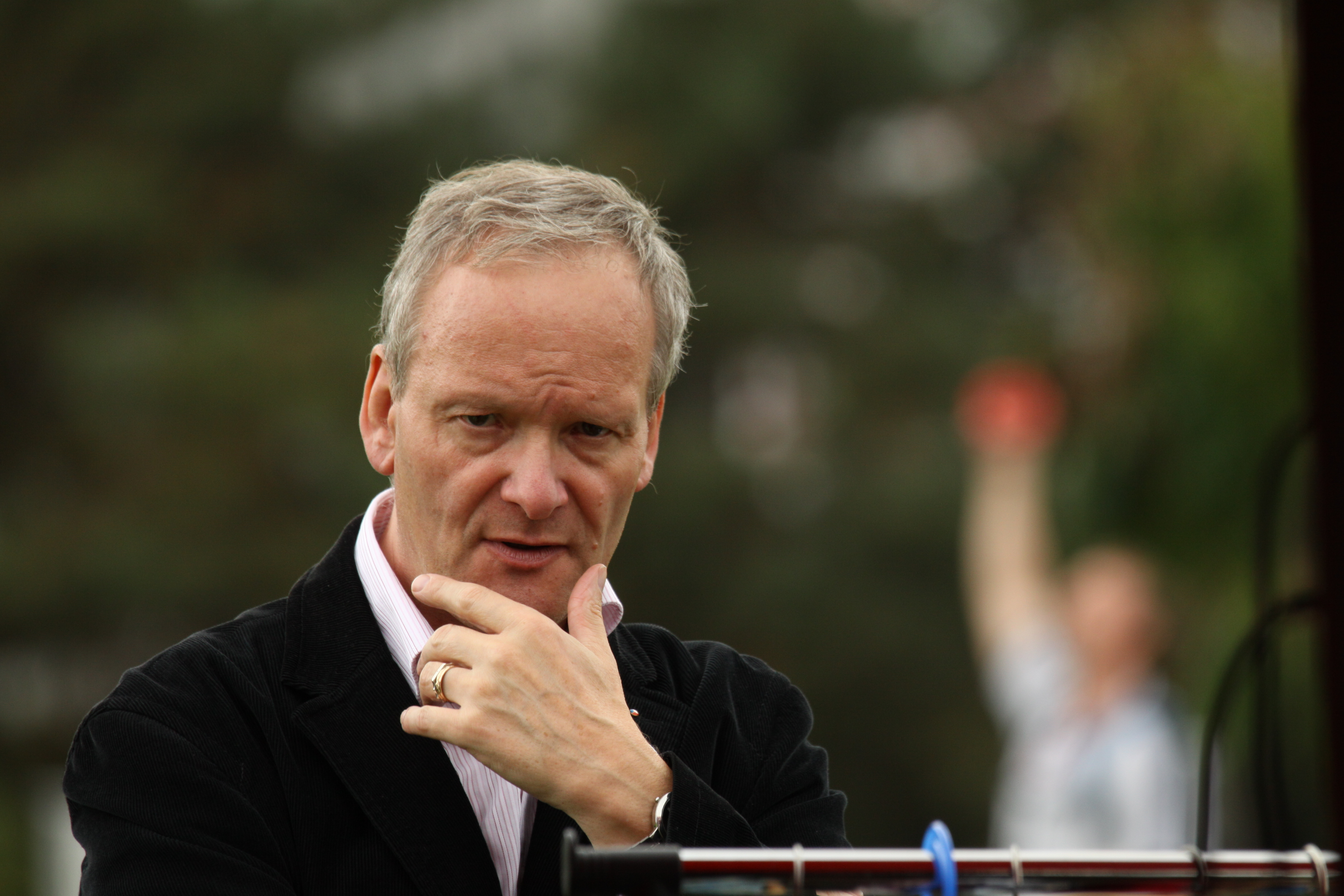 Josef Svoboda, Czech politician (brother of Cyril Svoboda). Personality rights warning Although this work is freely licensed or in the public domain, the person(s) shown may have rights that legally restrict certain re-uses unless those depicted consent to such uses. In these cases, a model release or other evidence of consent could protect you from infringement claims.